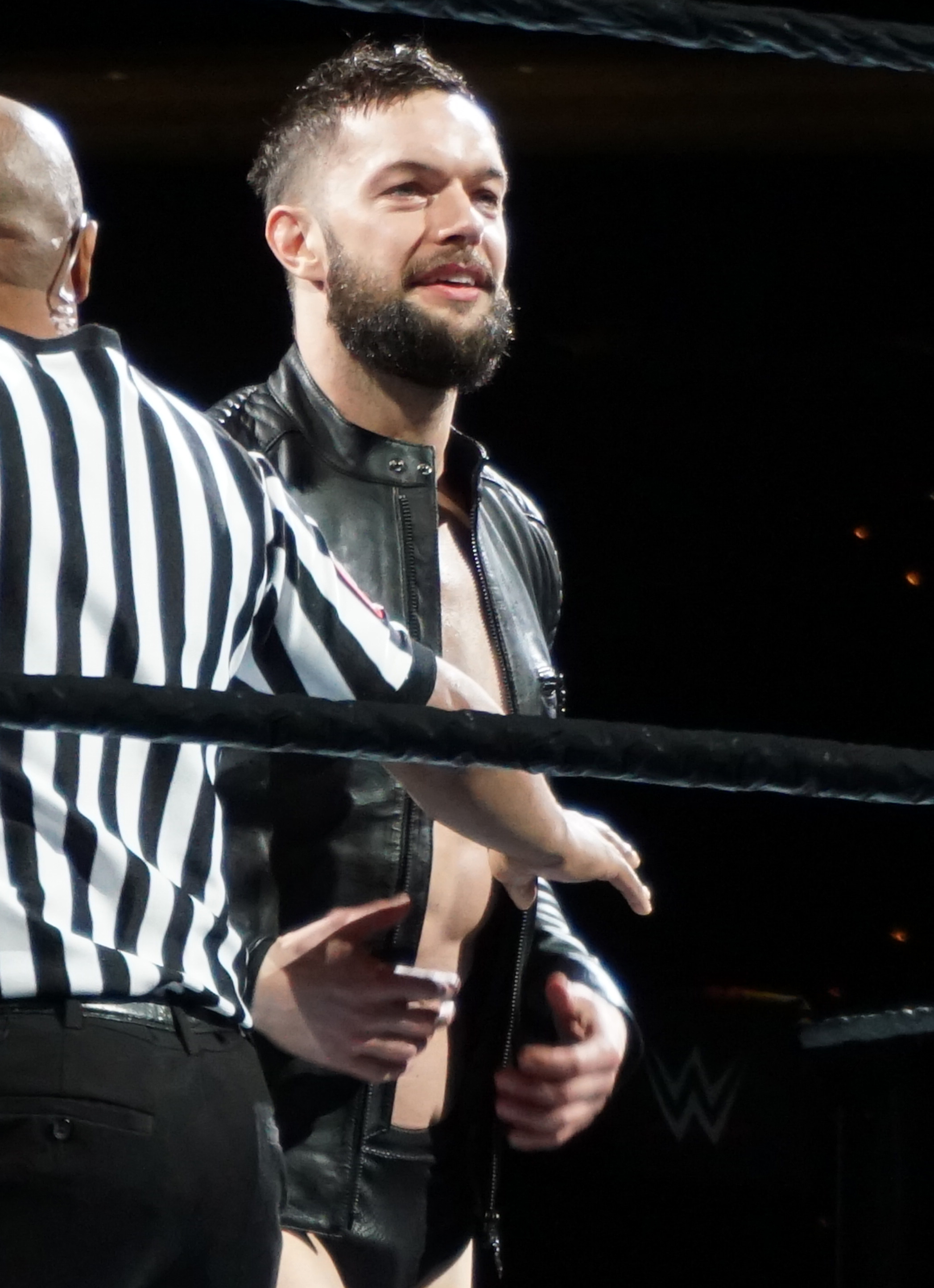 Balor at the WWE live show in Buffalo, NY on March 25th, 2018